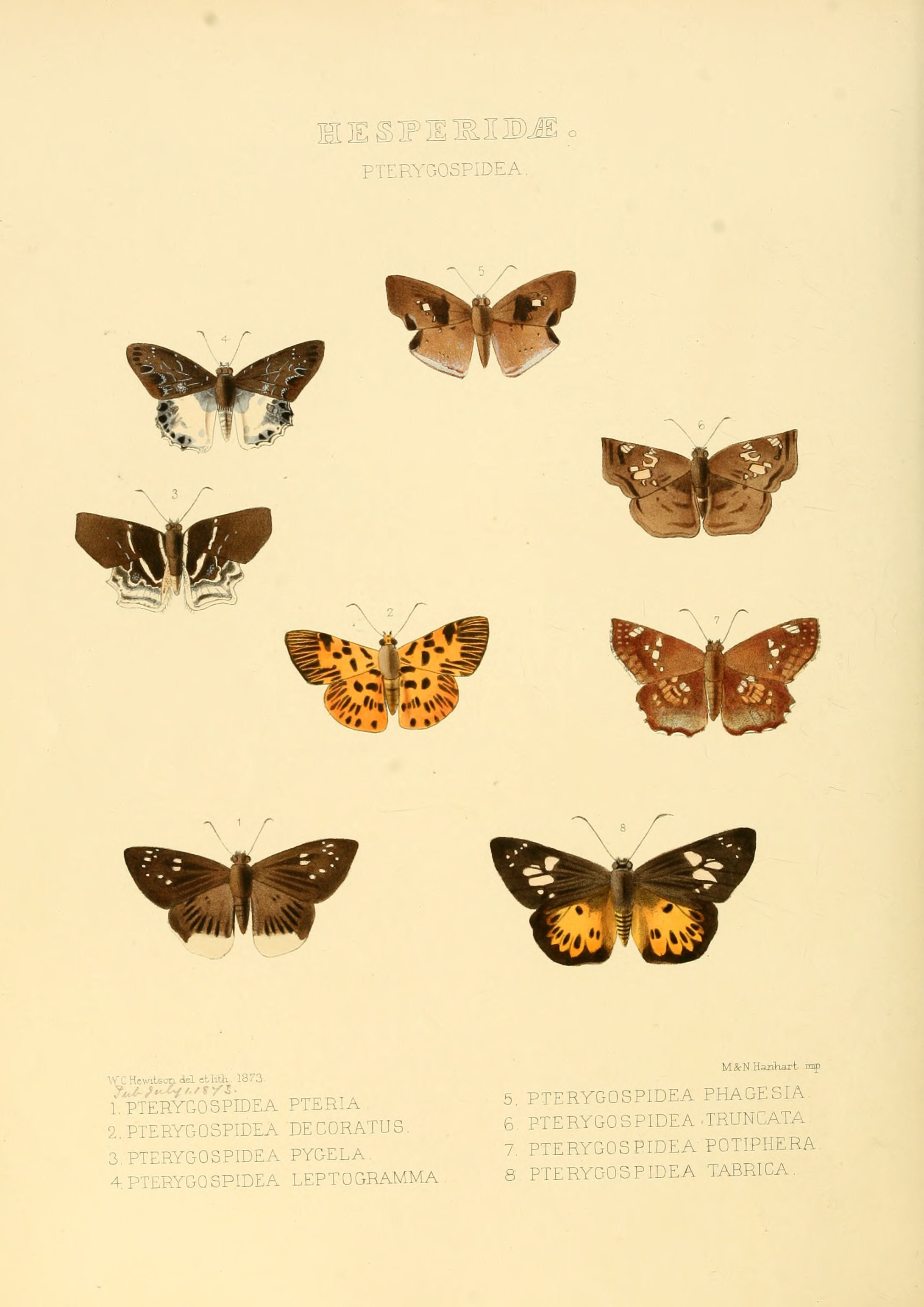 Plate: Pterygospidea Pterygospidea pteria. Fig. 1. Accepted as Darpa pteria (Hewitson, 1868). Pterygospidea decoratus. Fig. 2. Accepted as Odina decoratus (Hewitson, 1867). Pterygospidea pygela. Fig. 3. Accepted as Odontoptilum pygela (Hewitson, 1868). Pterygospidea leptogramma. Fig. 4. Accepted as Odontoptilum leptogramma (Hewitson, 1868). Pterygospidea phagesia. Fig. 5. Accepted as Gindanes brebisson (Latreille, 1824). Pterygospidea truncata. Fig. 6. Accepted as Quadrus truncata (Hewitson, 1870). Pterygospidea potiphera. Fig. 7. Accepted as Caprona ransonnetti (R. Felder, 1868). Pterygospidea tabrica. Fig. 8. Accepted as Pintara tabrica (Hewitson, 1873).